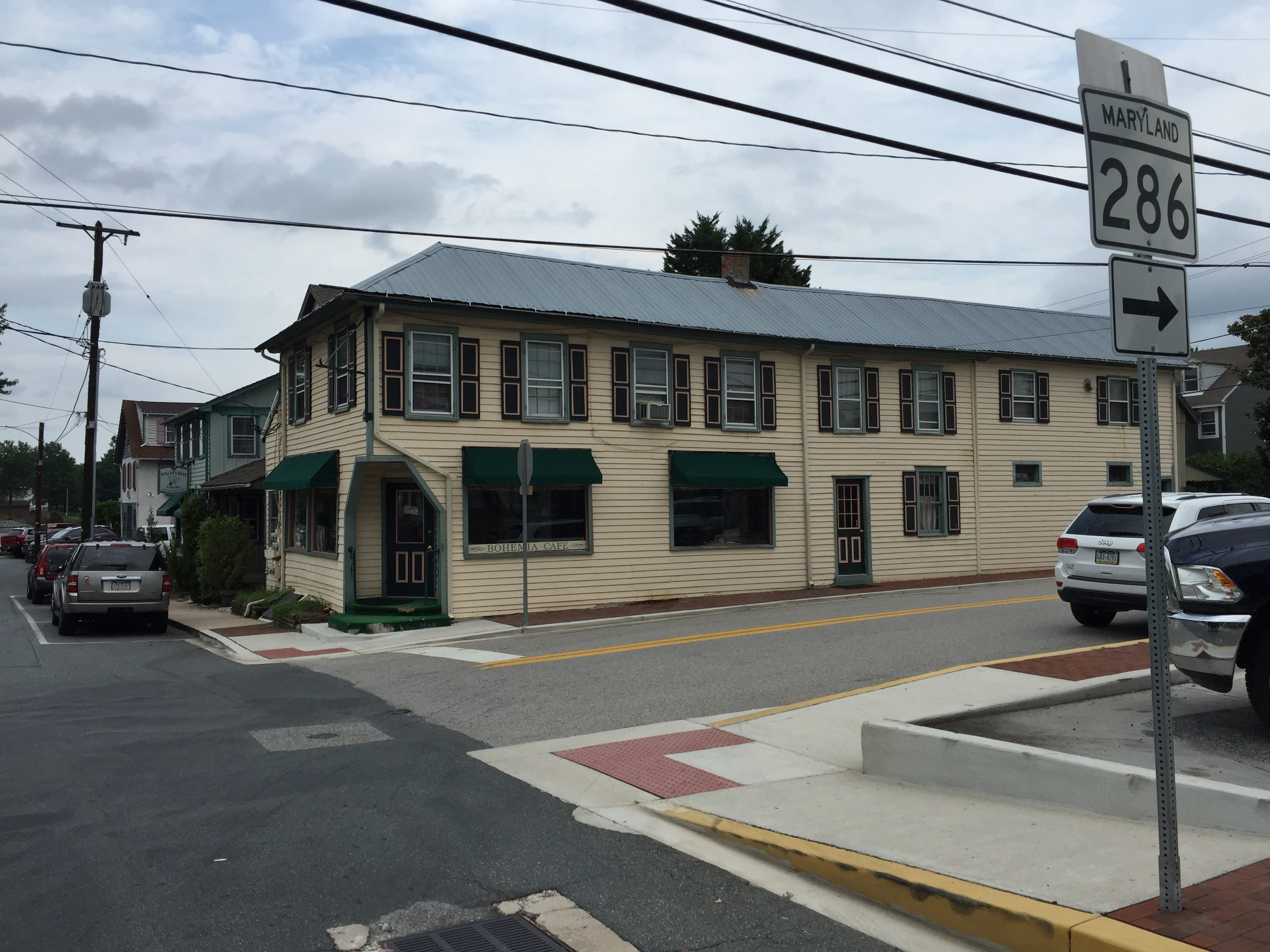 View east along Maryland State Route 286 (Second Street) at Maryland State Route 537 (George Street) in Chesapeake City, Cecil County, Maryland